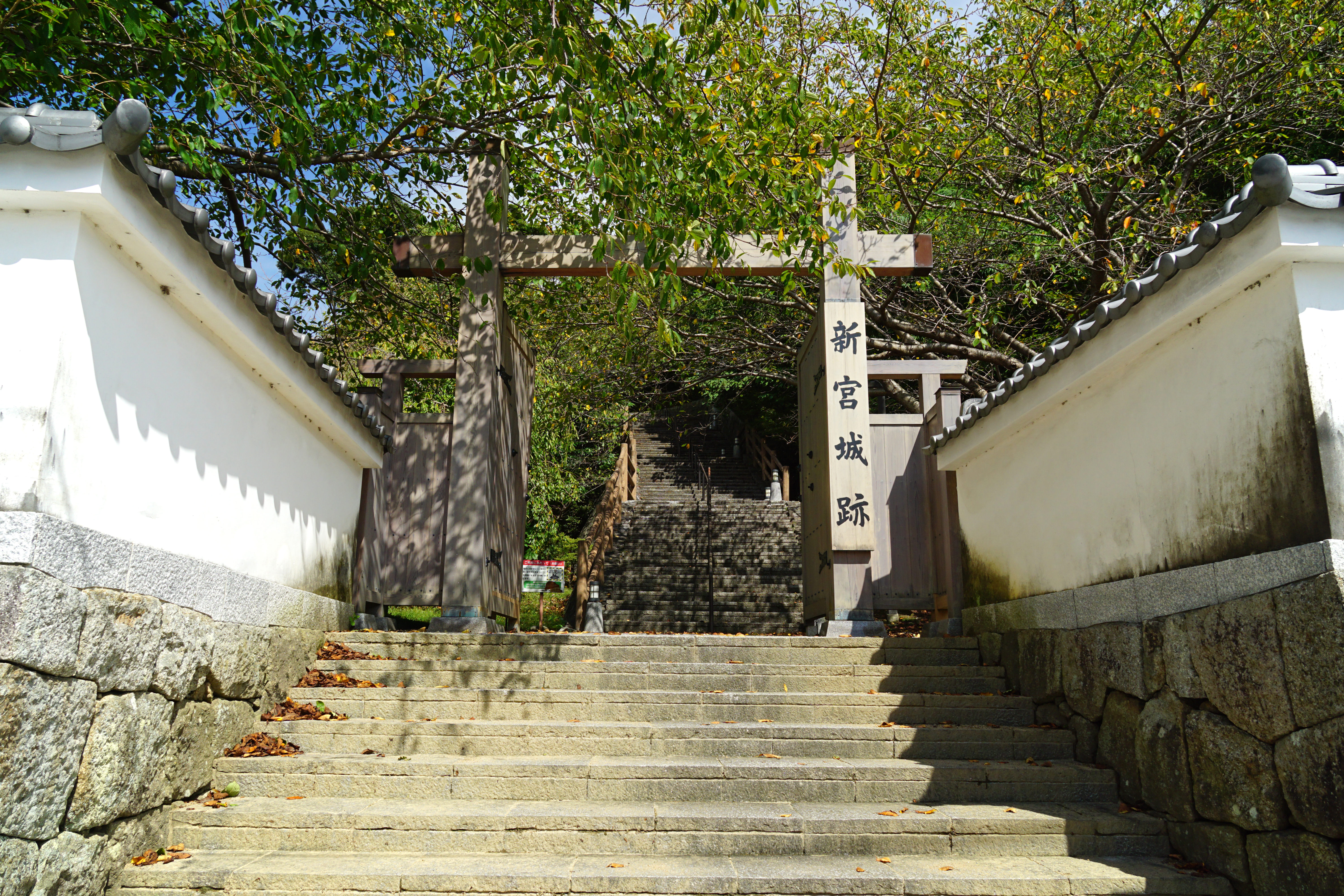 Shingū Castle in Shingū, Wakayama prefecture, Japan